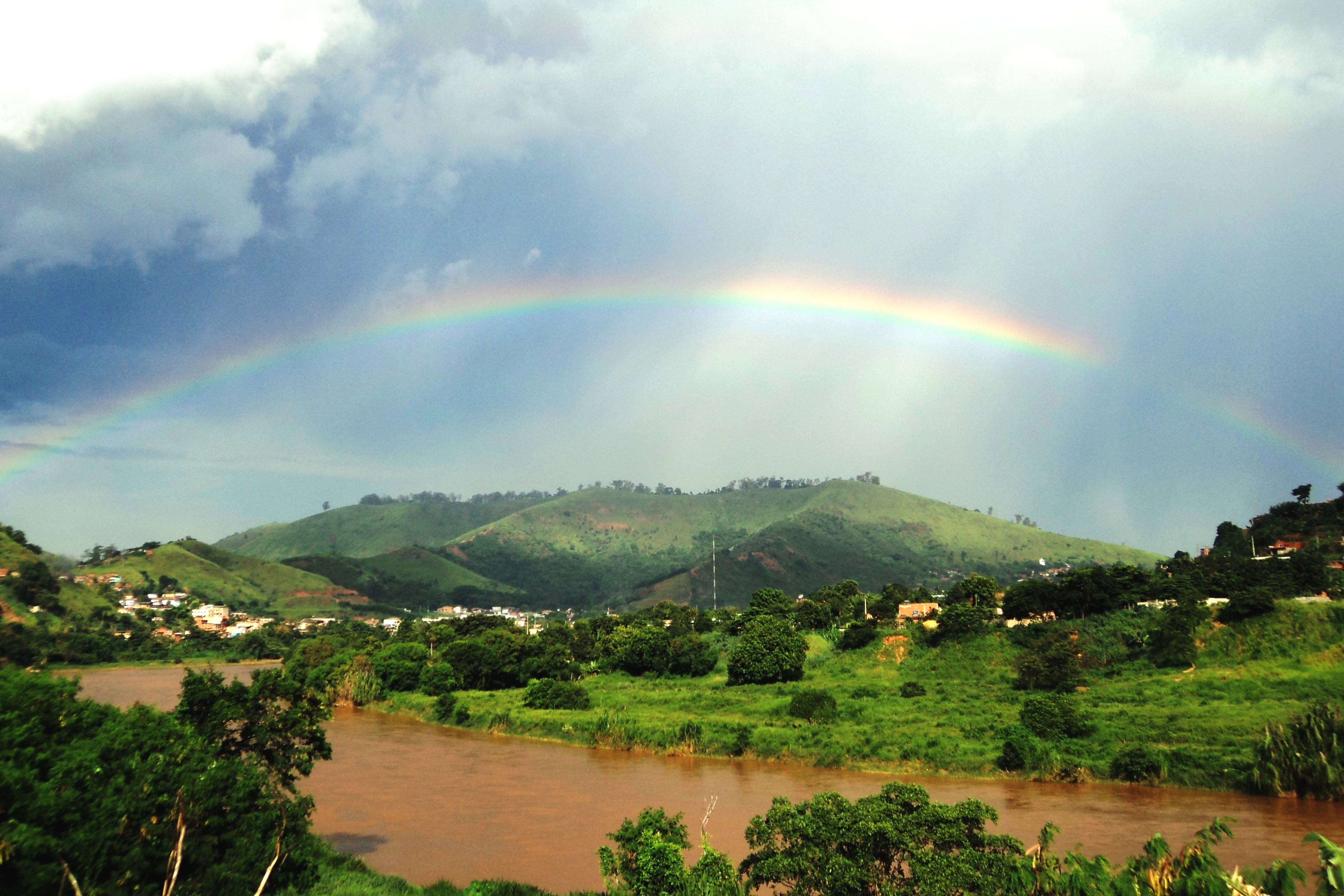 A rainbow in Coronel Fabriciano, Minas Gerais, Brazil.